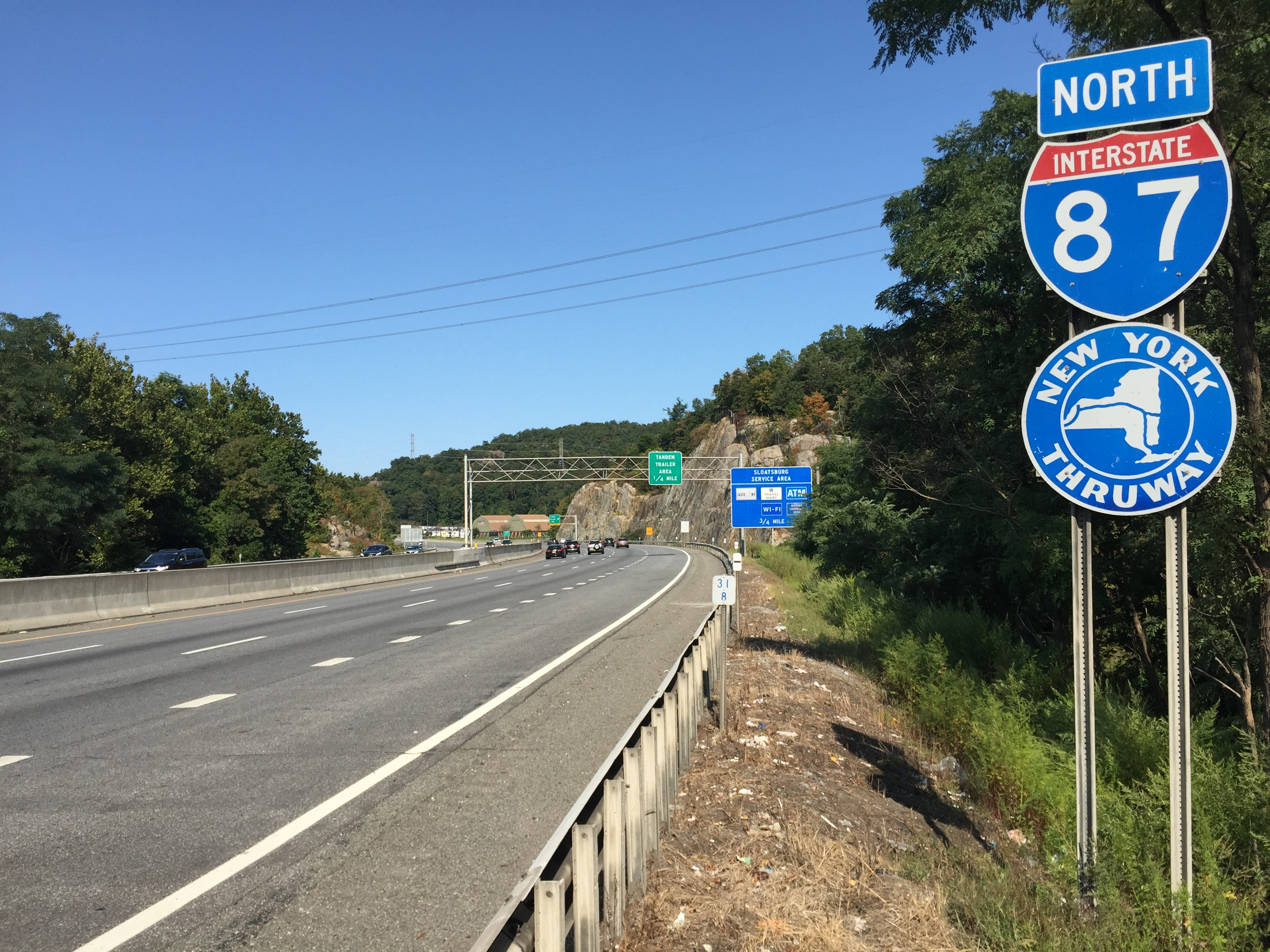 View north along Interstate 87 (New York State Thruway) just north of Exit 15A (New York State Route 17 north, New York State Route 59, Sloatsburg, Suffern) in Ramapo, Rockland County, New York